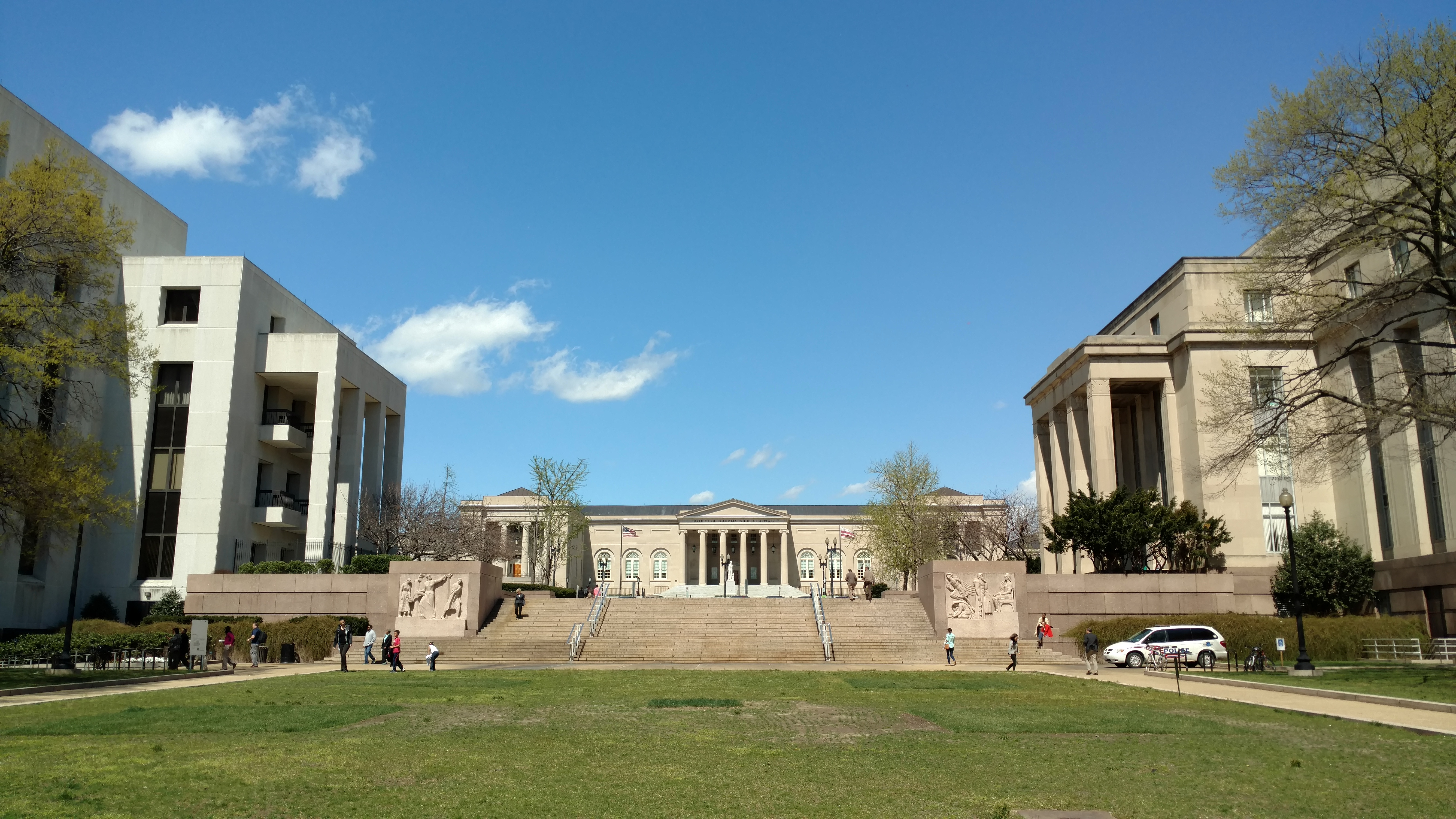 H. Carl Moultrie Courthouse on the left, DC Metro Police HQ on the right